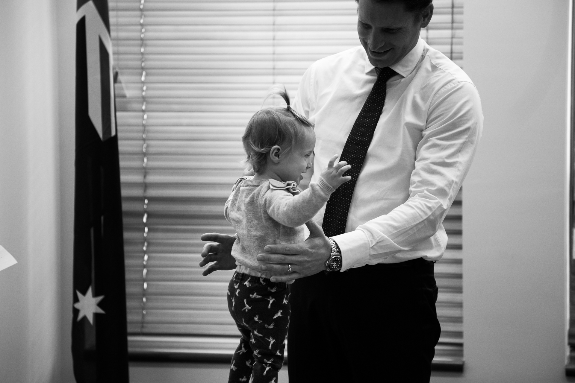 Andrew Hastie and daughter (KN)